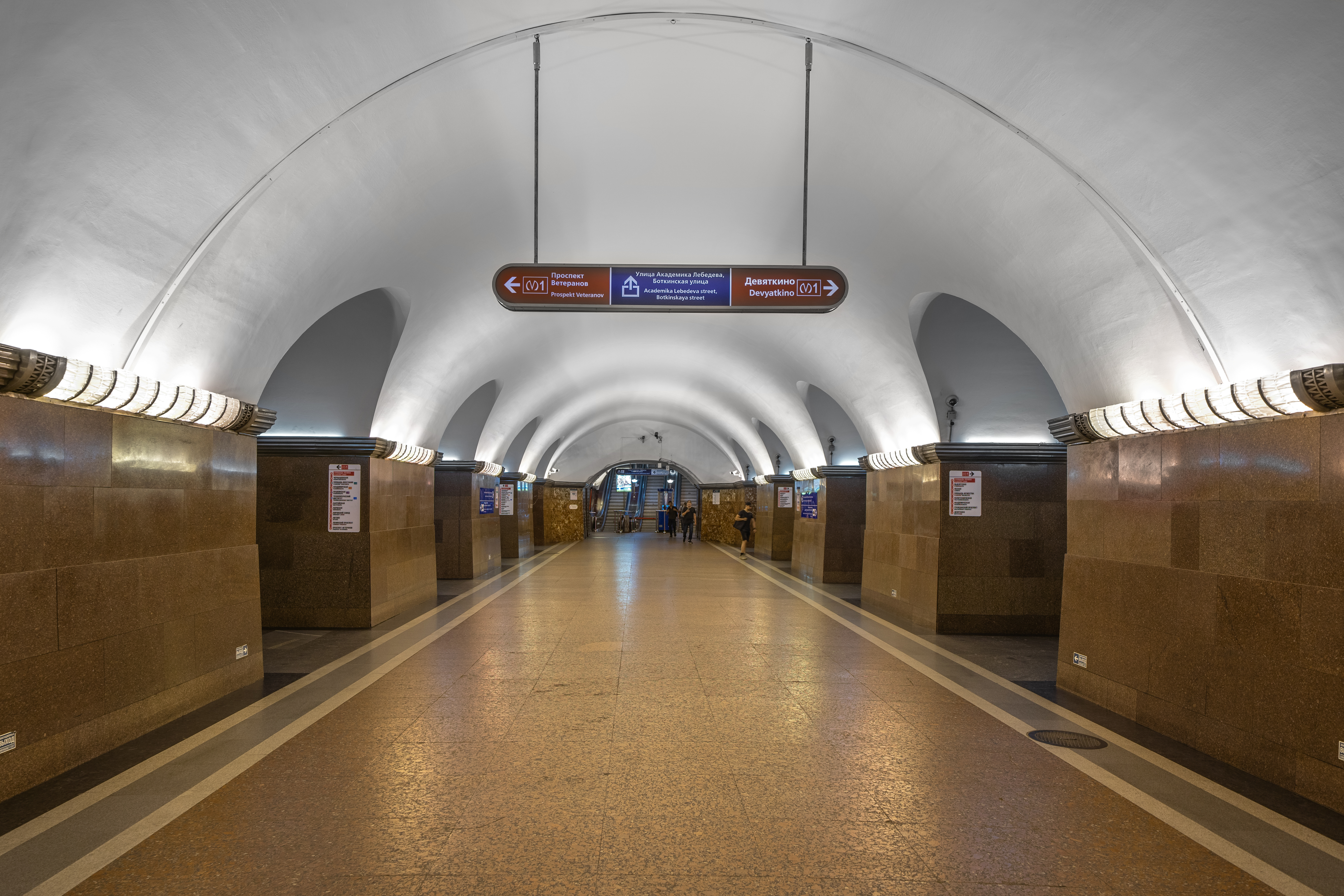 Ploschad Lenina metro station in Saint Petersburg, Russia.